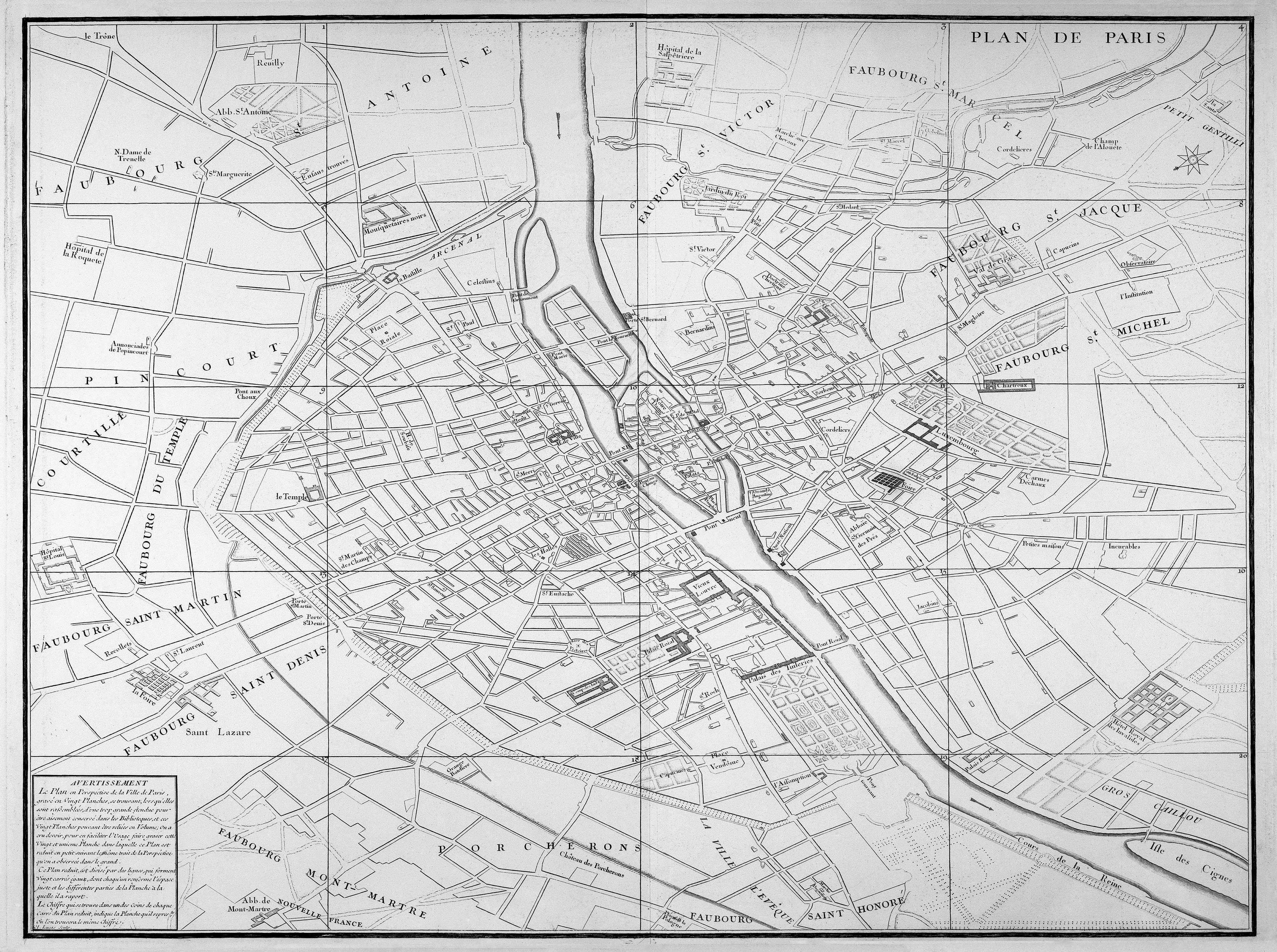 General overview map of the Turgot map of Paris